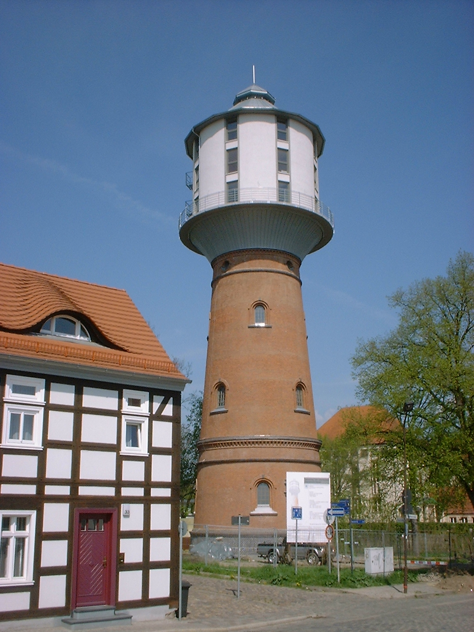 Water tower in Nauen in Brandenburg, Germany